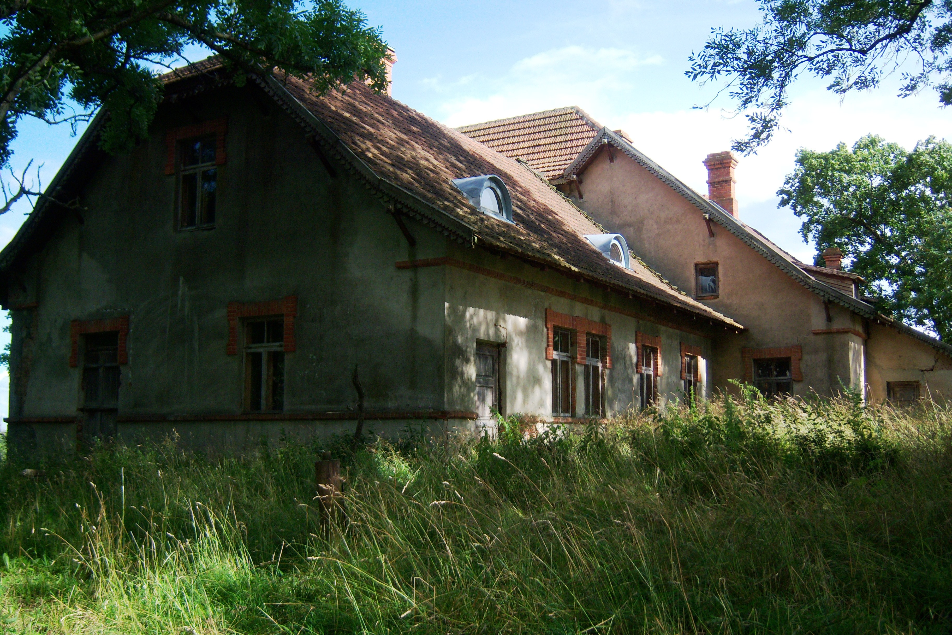 Former Zacišius manor, main house, Kaunas district. Lithuania